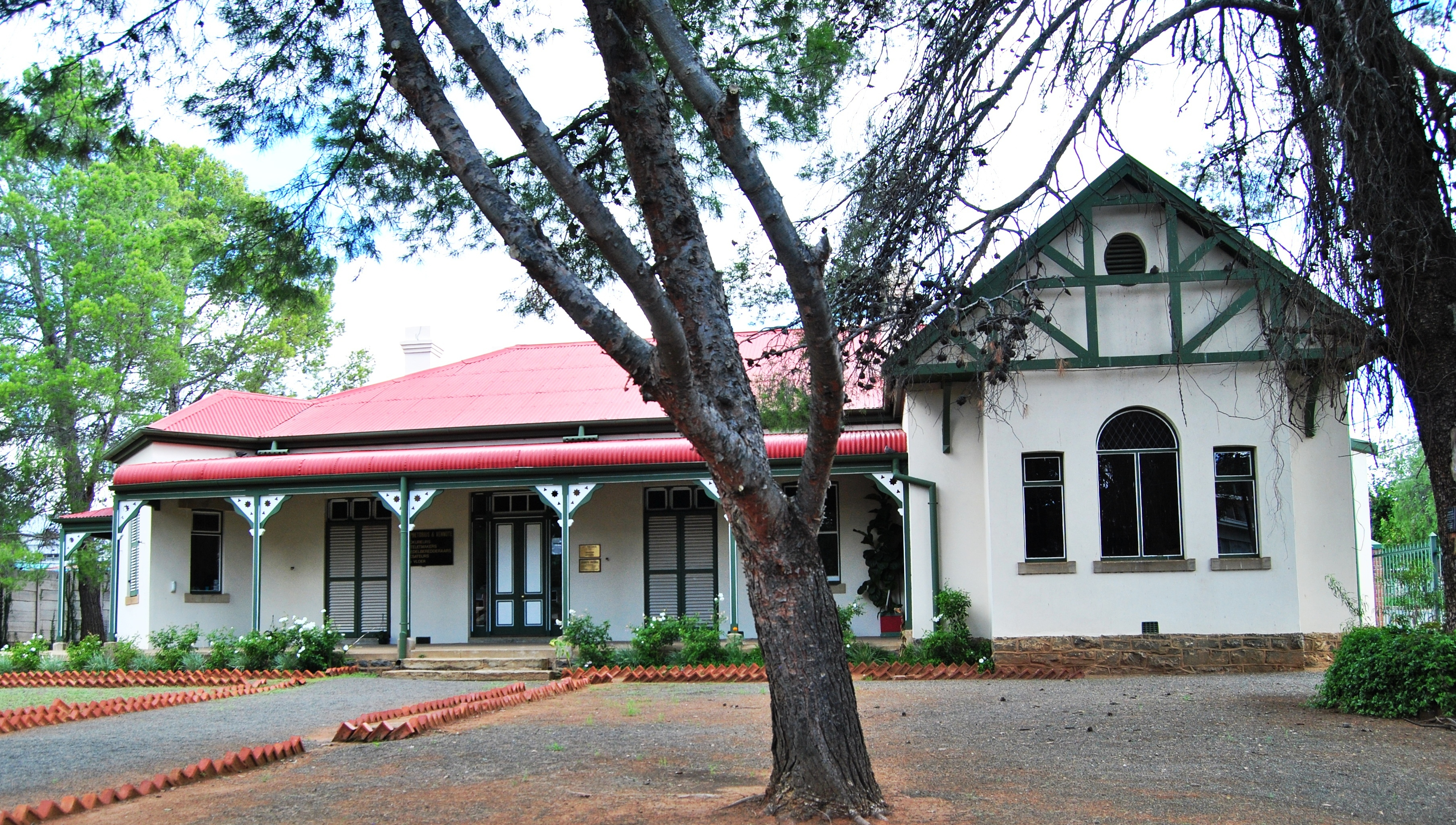 Hertzog House Museum, 19 Goddard Street, Bloemfontein This media shows a South African Protected Site with SAHRA file reference 9/2/302/0037.